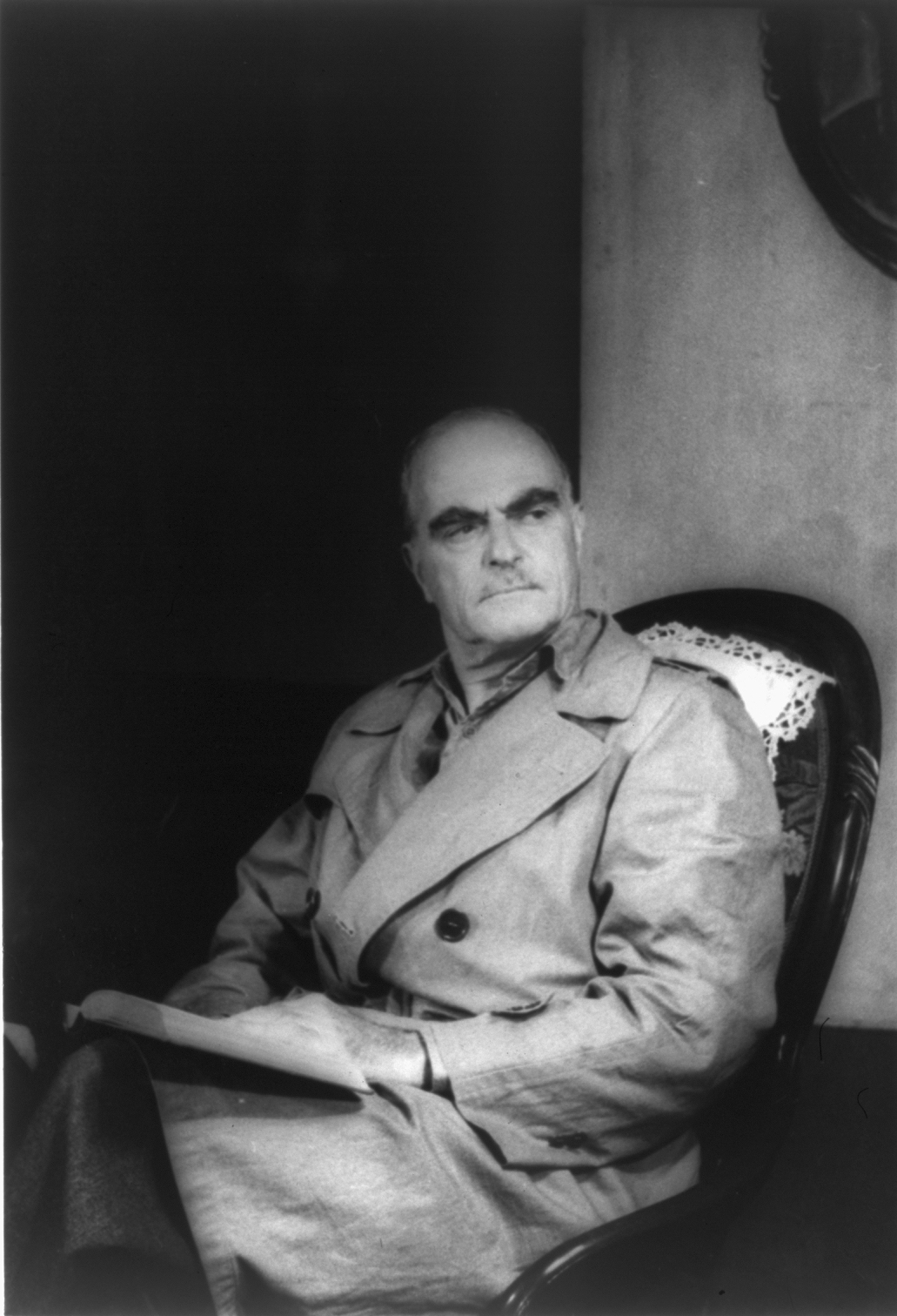 Photo of author/playwright Thornton Wilder.Portrait of Thornton Wilder, as Mr. Antrobus in "The Skin of Your Teeth", 1948